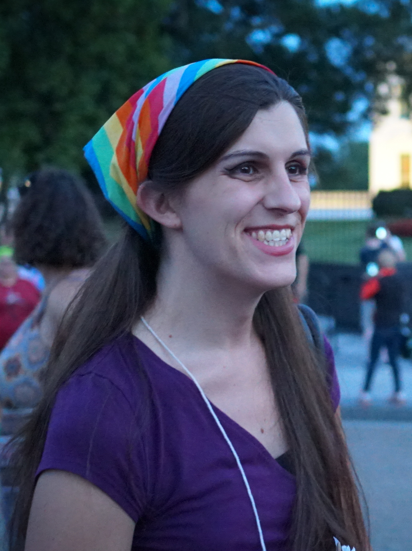 Protest Trans Military Ban, White House, Washington, DC USA